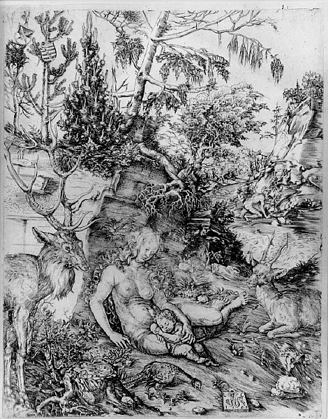 Based on a work by Albrecht Dürer[1]